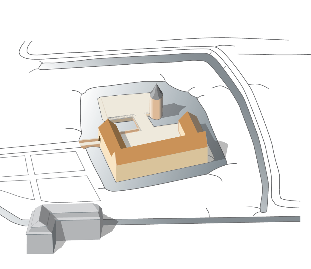 Probable state of the Obere Burg (literally: Upper Castle) in Euskirchen-Kuchenheim, North Rhine-Westphalia around 1820 (according to the Trancot/Mueffling map). The outer bailey consisted of a U-shaped building with open courtyard directed towards the manor house. This side remained not built-up to remove any defilade for hostile invaders. Even in 1820, only the round tower in front of the living and manor house was preserved. The moat between main castle and bailey was filled up yet. In the foreground next to the Erftmühlenbach brook, the paper mill Fingerhut (bulit 1801), that became later the Mueller Cloth Mill.